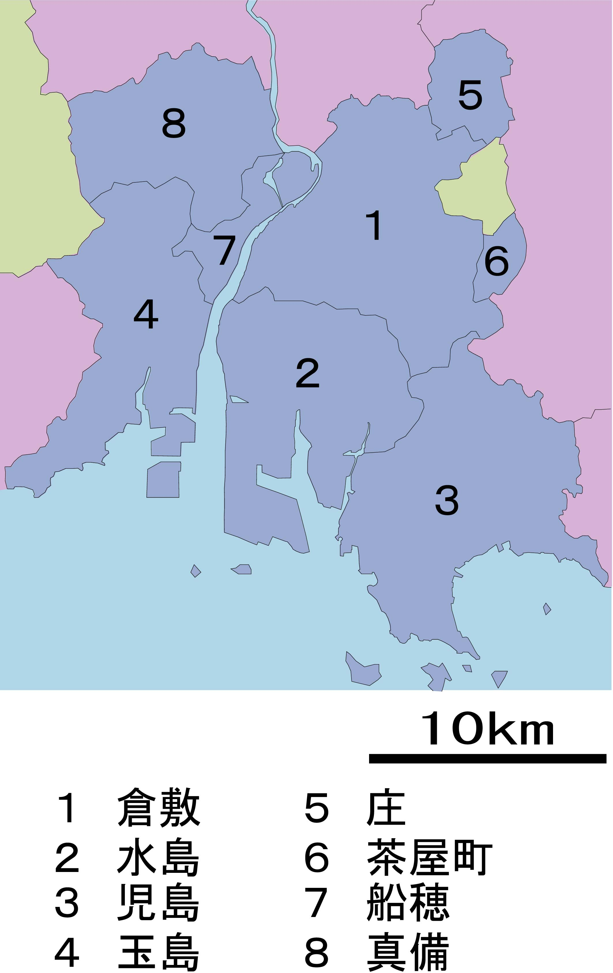 Kurashiki City administrative division map